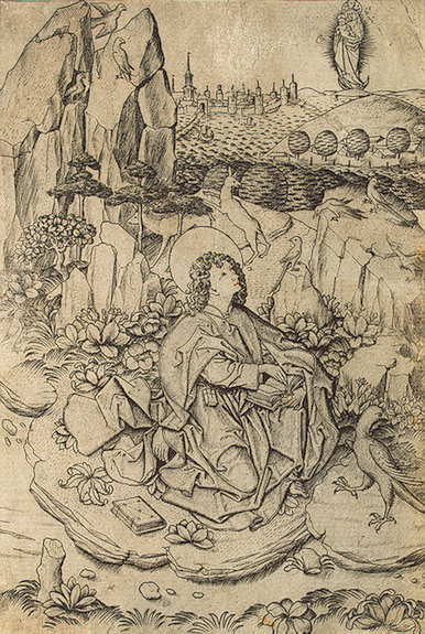 St John the Evangelist in Patmos, Line-engraving. 20.5x14.2 cm, L. 151